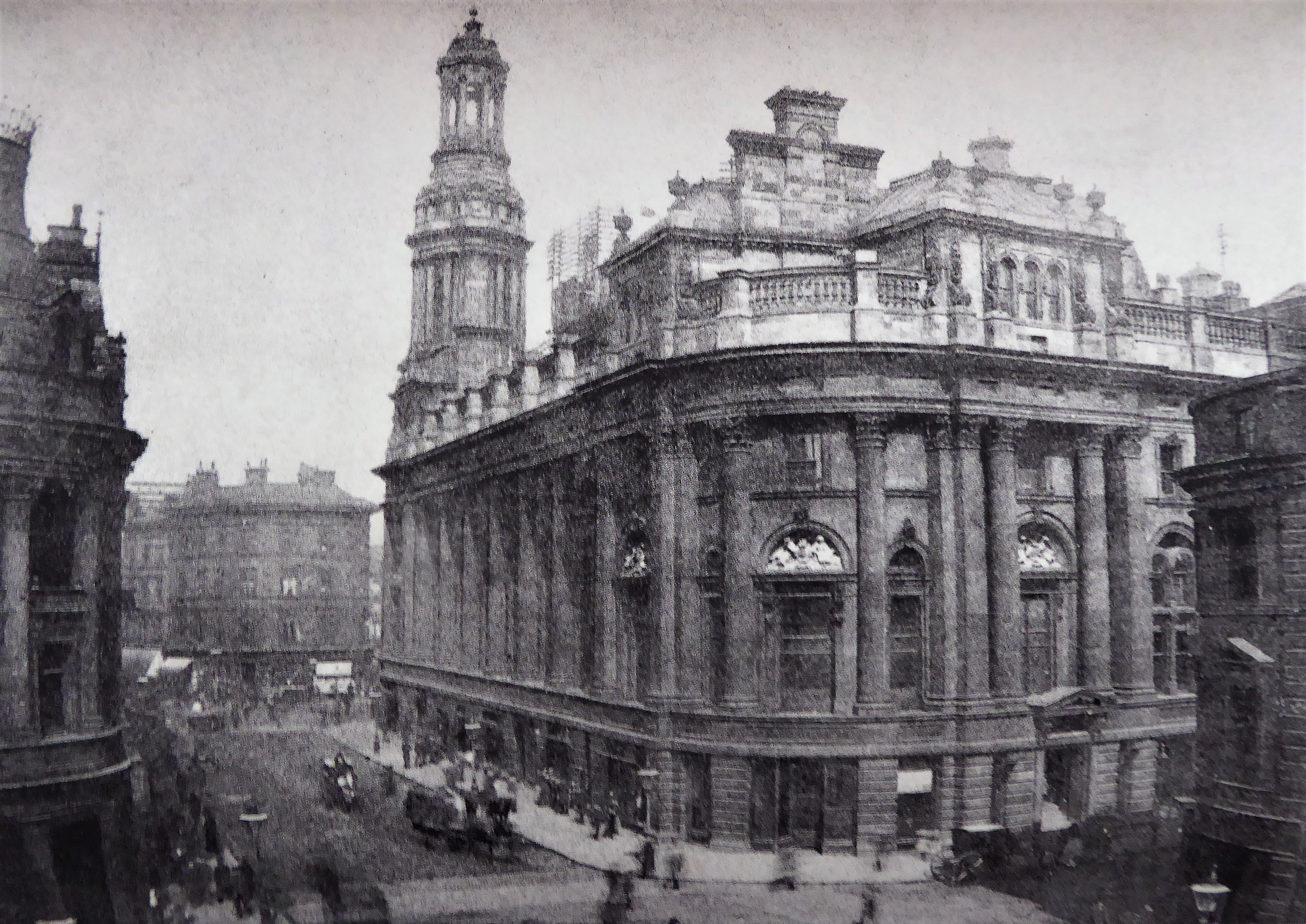 Royal Exchange (south west view), Manchester, England, 1891